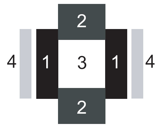 scheme indirect resistance heating